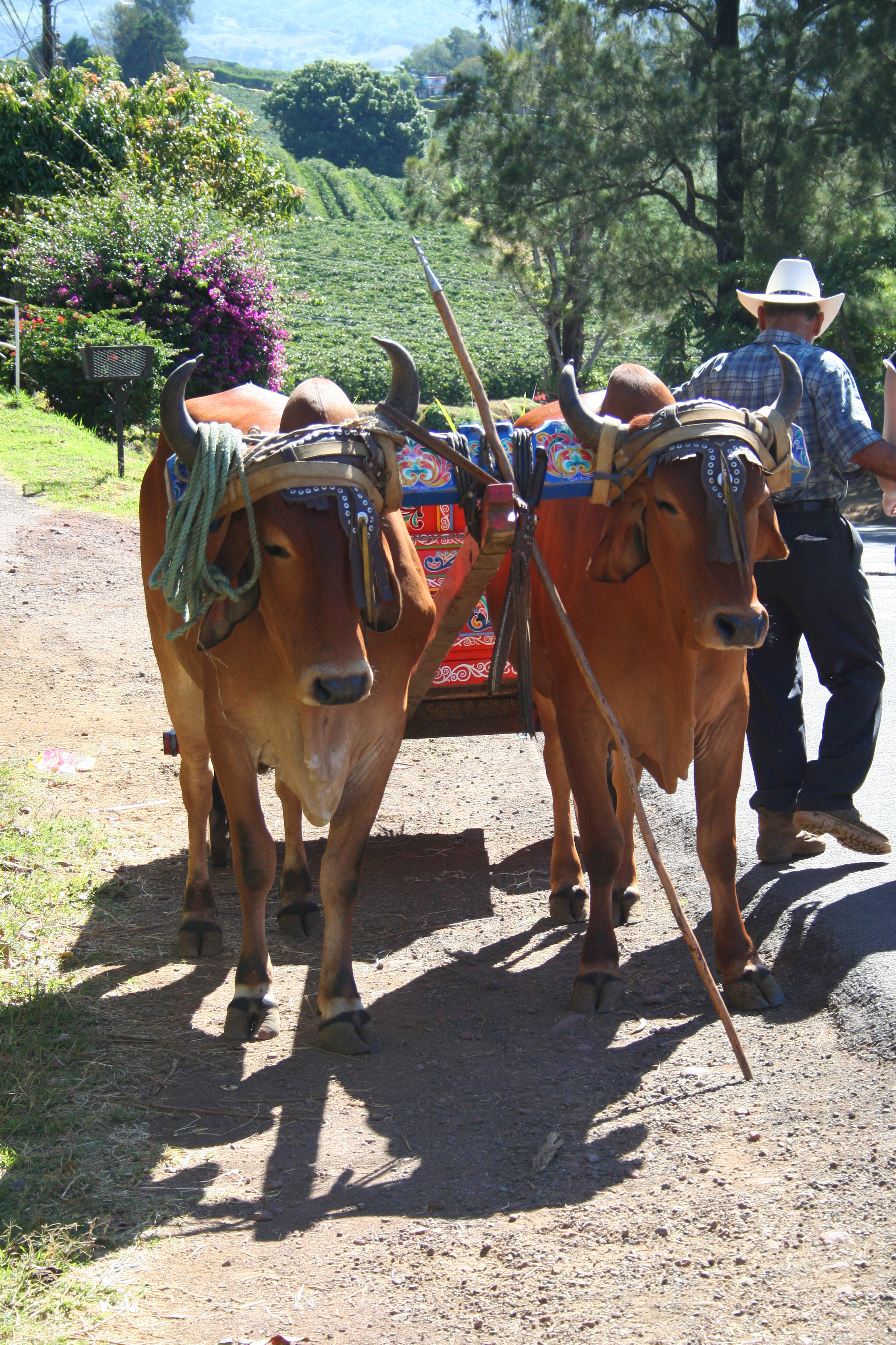 A pair of Costa Rican oxen